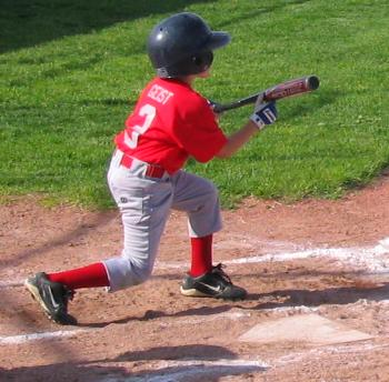 A Little League baseball player squares around to bunt.